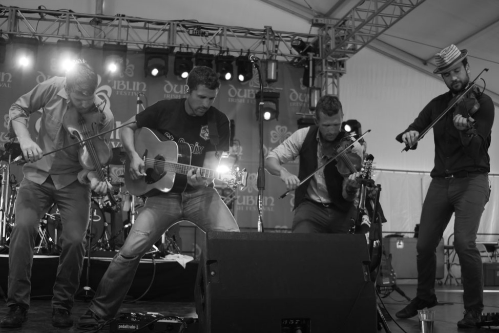 Scythian performing in 2014